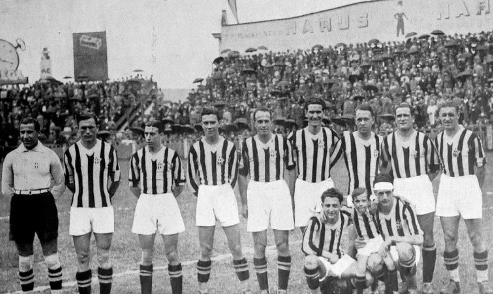 A line-up of F.B.C. Juventus in the 1932–33 season, posing inside the Campo Juventus ("Juventus Ground") in Turin, Italy. From left to right, standing: G. Combi, M. Varglien (I), R. Orsi, F. Borel (II), G. Ferrari, G. Varglien (II), V. Rosetta (captain), L. Monti, U. Caligaris; crouched: P. Sernagiotto "Ministrinho", mascotte, L. Bertolini.